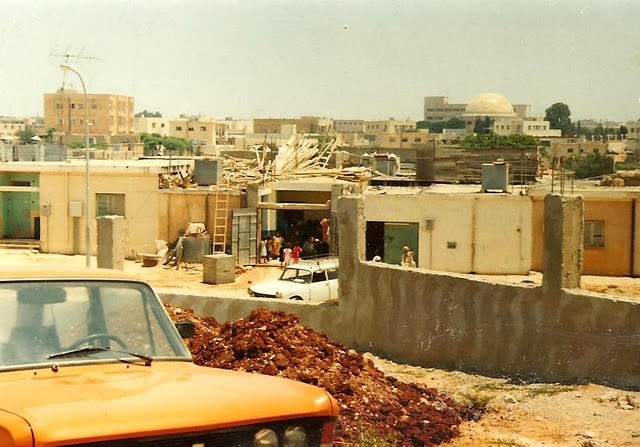 Al Bayda City old in Libya